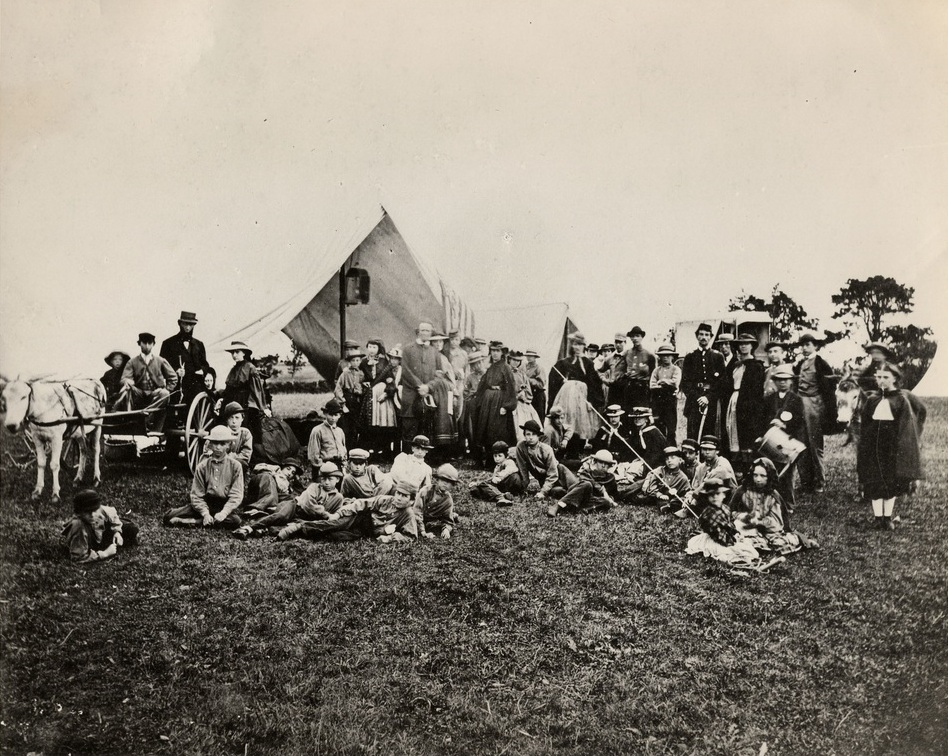 Picture of Gunnery Camp, the first organized American summer camp